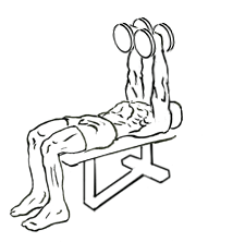 an exercise of triceps